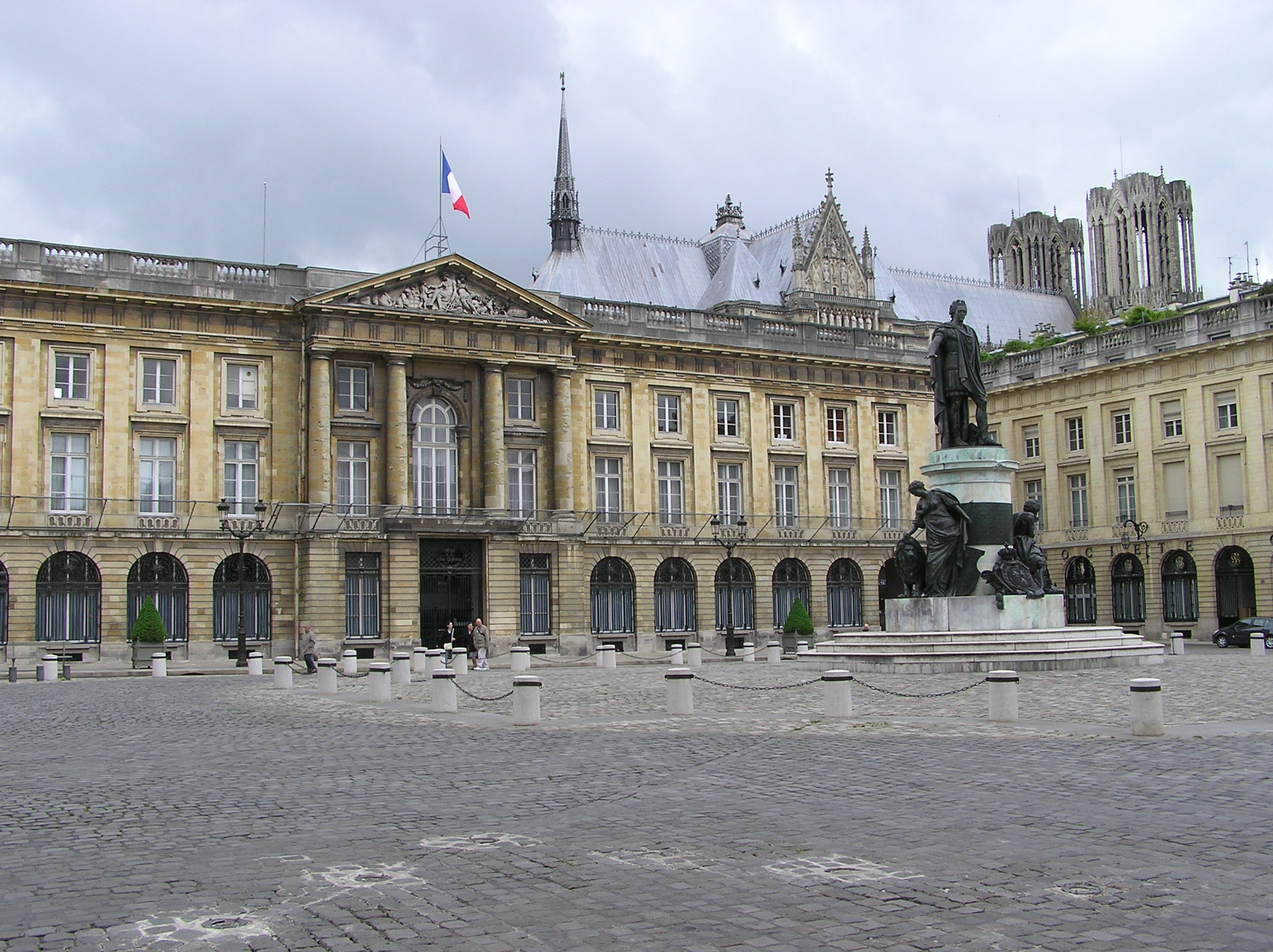 Statue of Louis XV on the Place Royale in Reims (France); in the background the famous cathedral Notre Dame